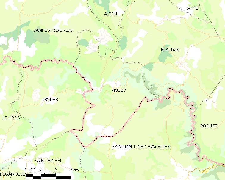 Map commune FR insee code 30353.png - Vissec